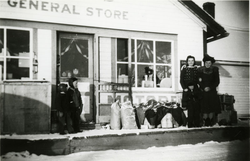 Post office and store located in Buffalo Lake, approximately 23 km northwest of Grande Prairie, Alberta